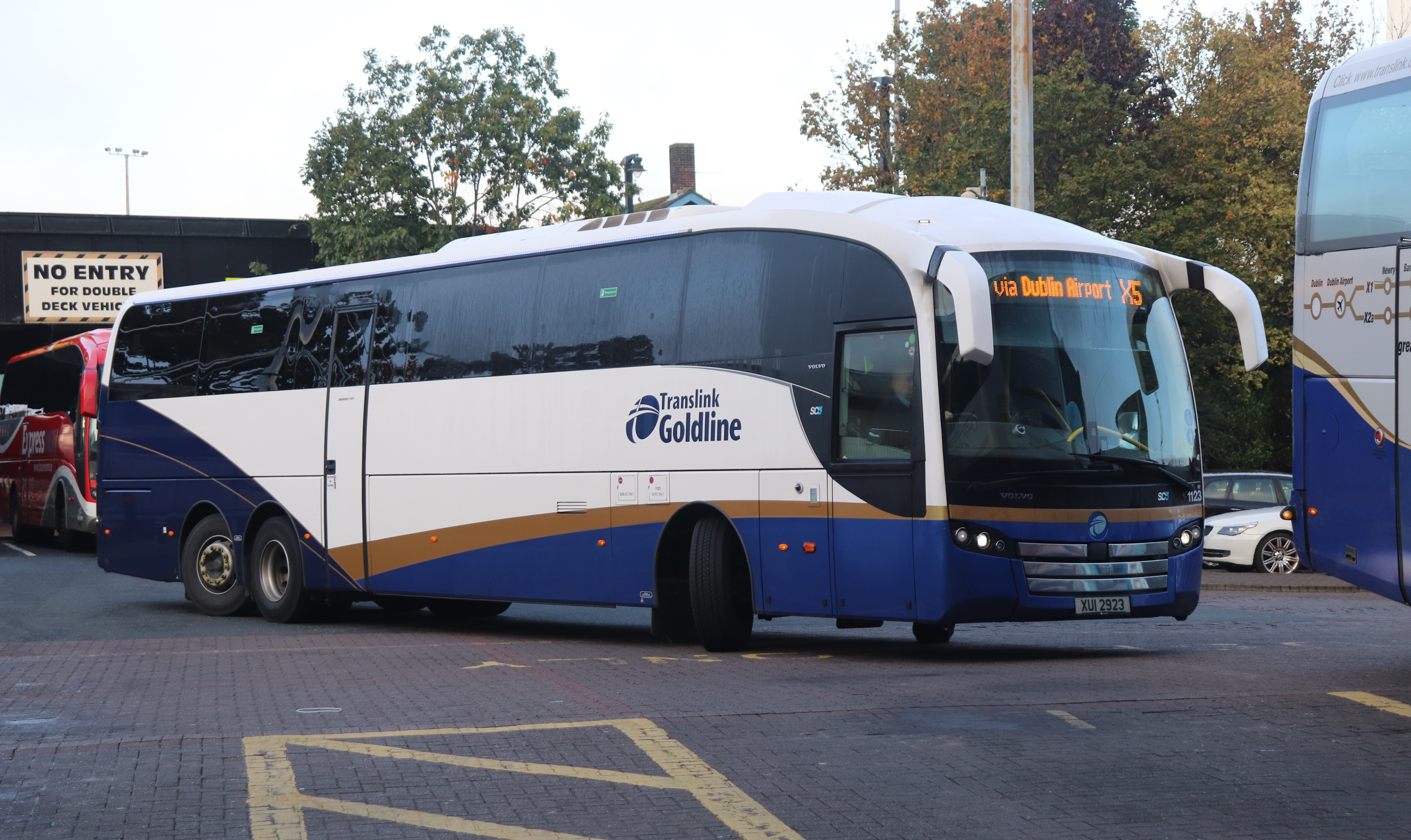 New in 2019 Ulsterbus Sunsundegui SC5 coach 1123 departs for Dublin from Belfast Europa Bus Centre.